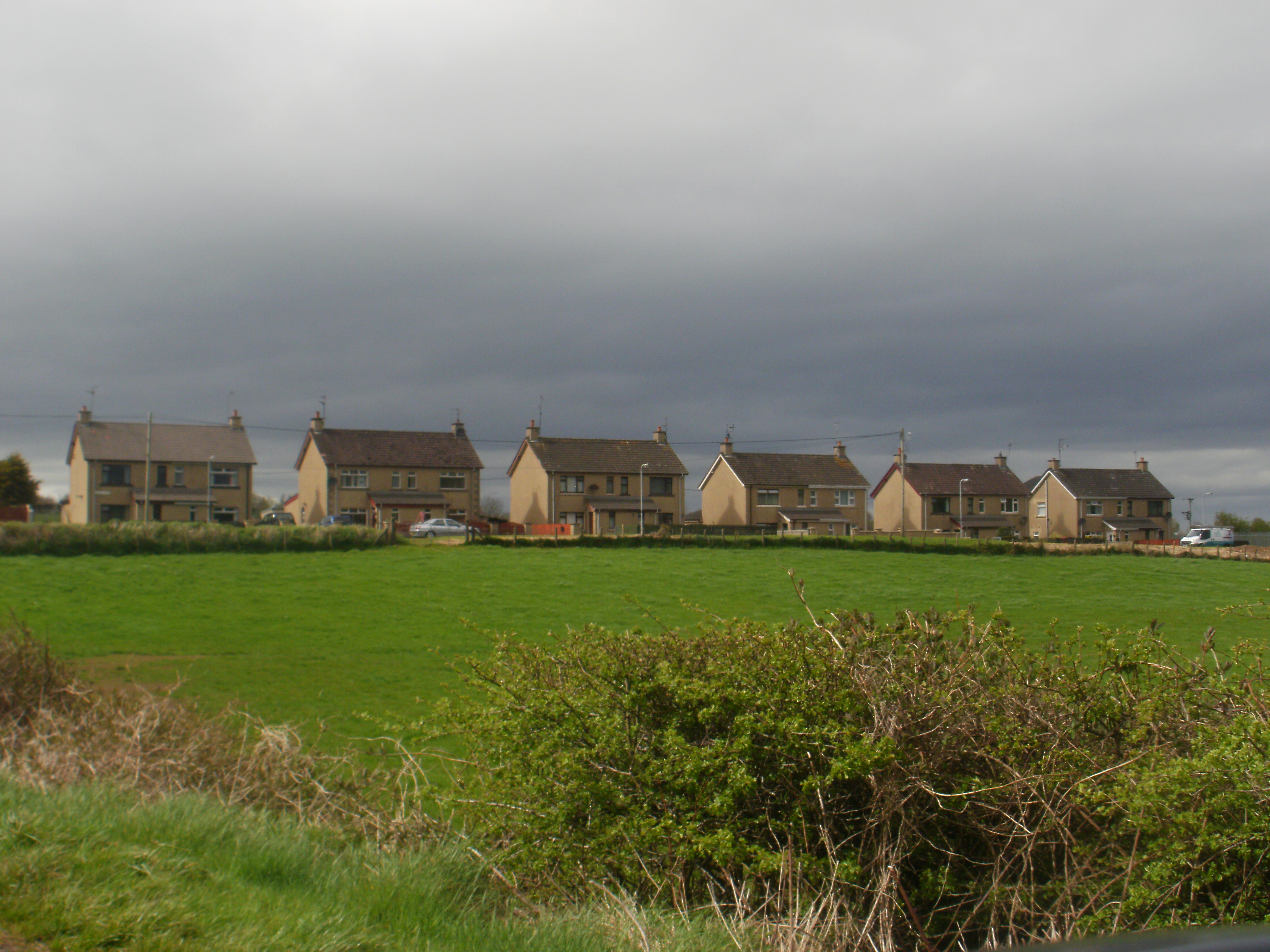 A row of houses known as Shamrock Park in the townland of Rosnashane, in Rasharkin County Antrim.